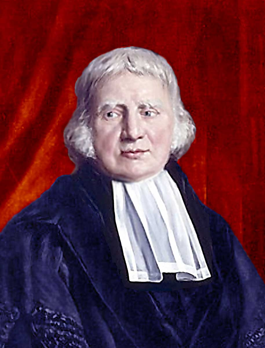 Gabriel van Oordt (1757-1836) Dutch reformed theologian